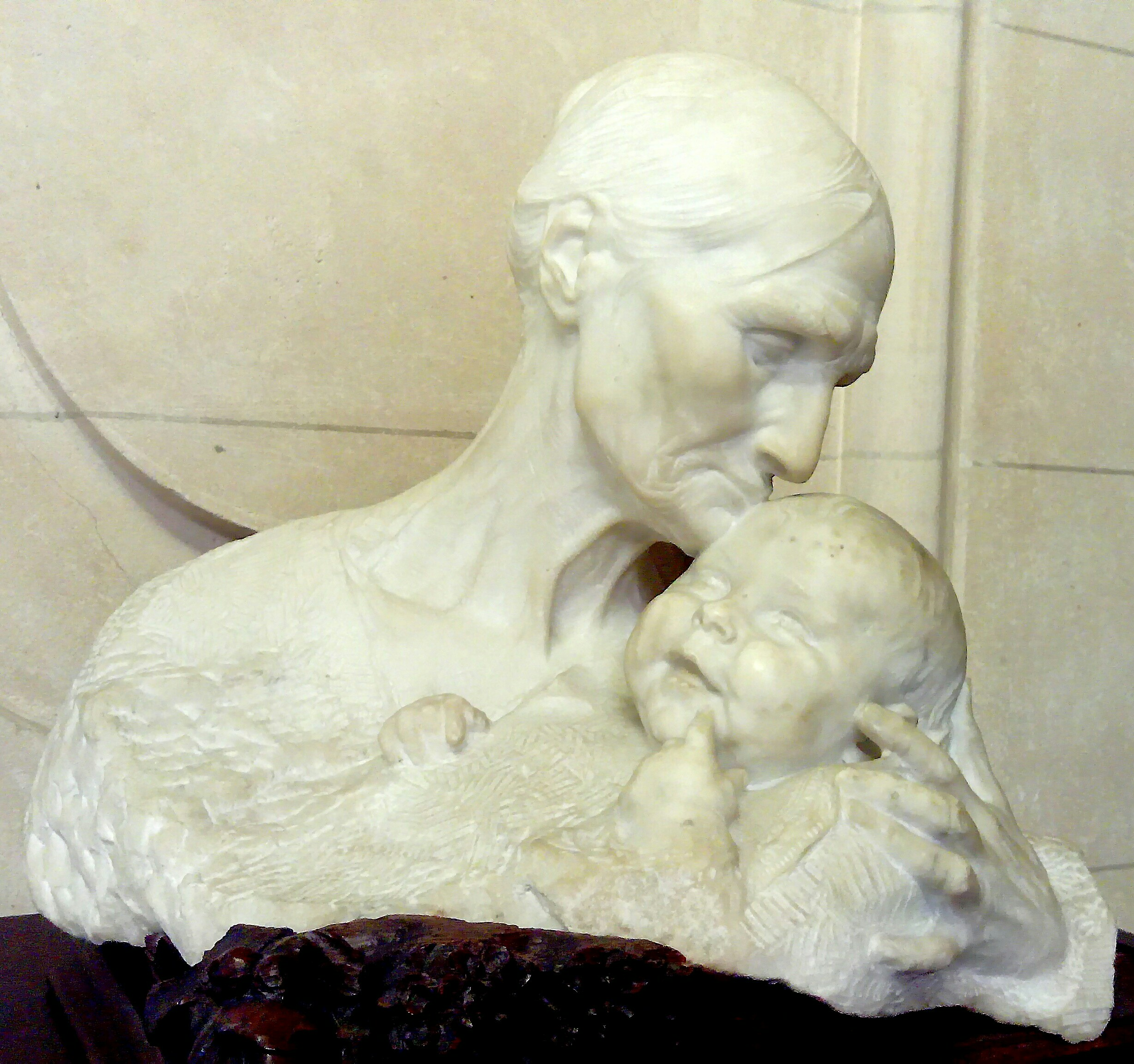 "The Grandmother's Kiss", a marble and wood sculpture made by Jean Dampt in 1892, exhibited in the Musée d'Orsay in Paris.